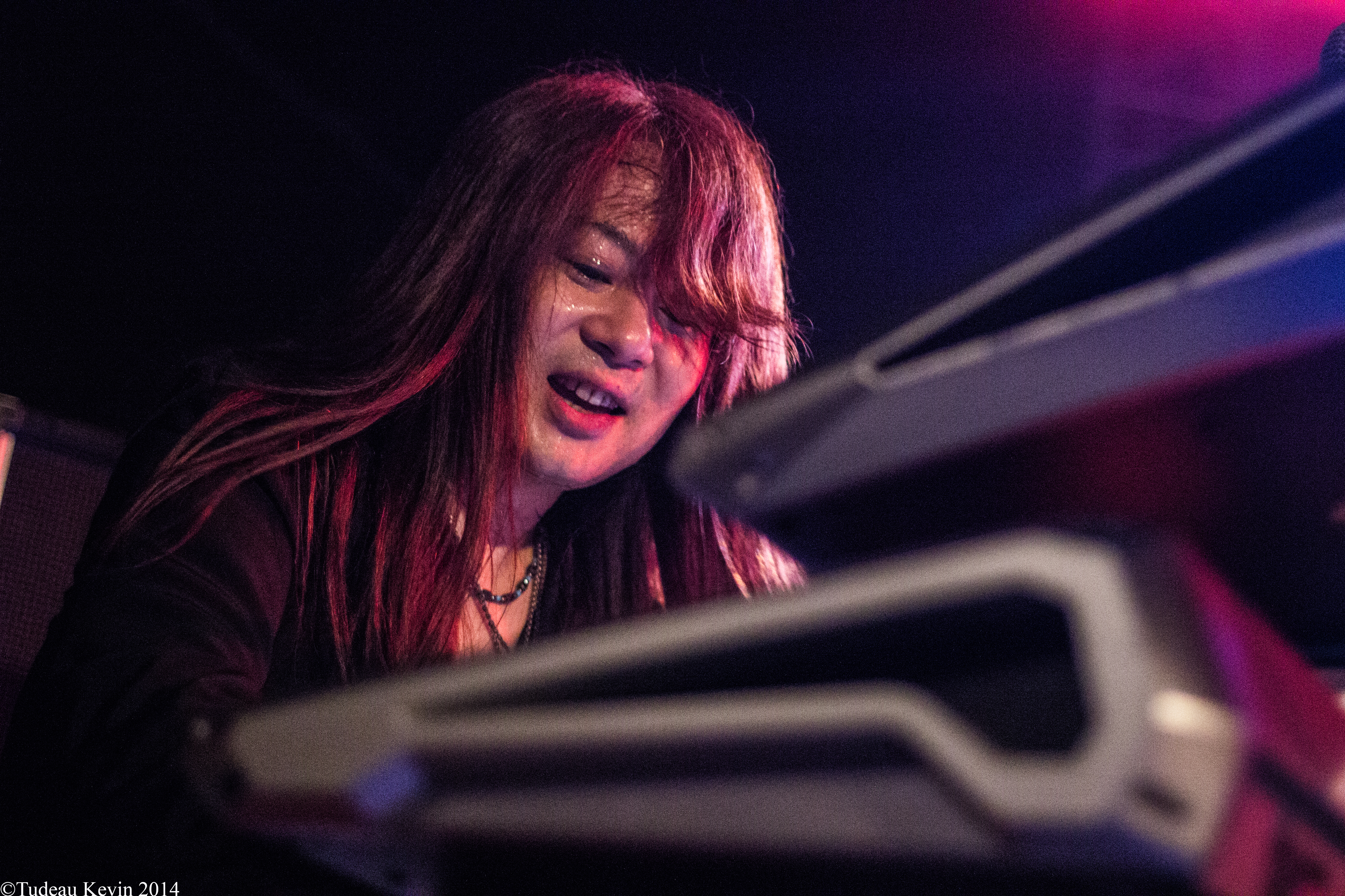 Galneryus. (2014)